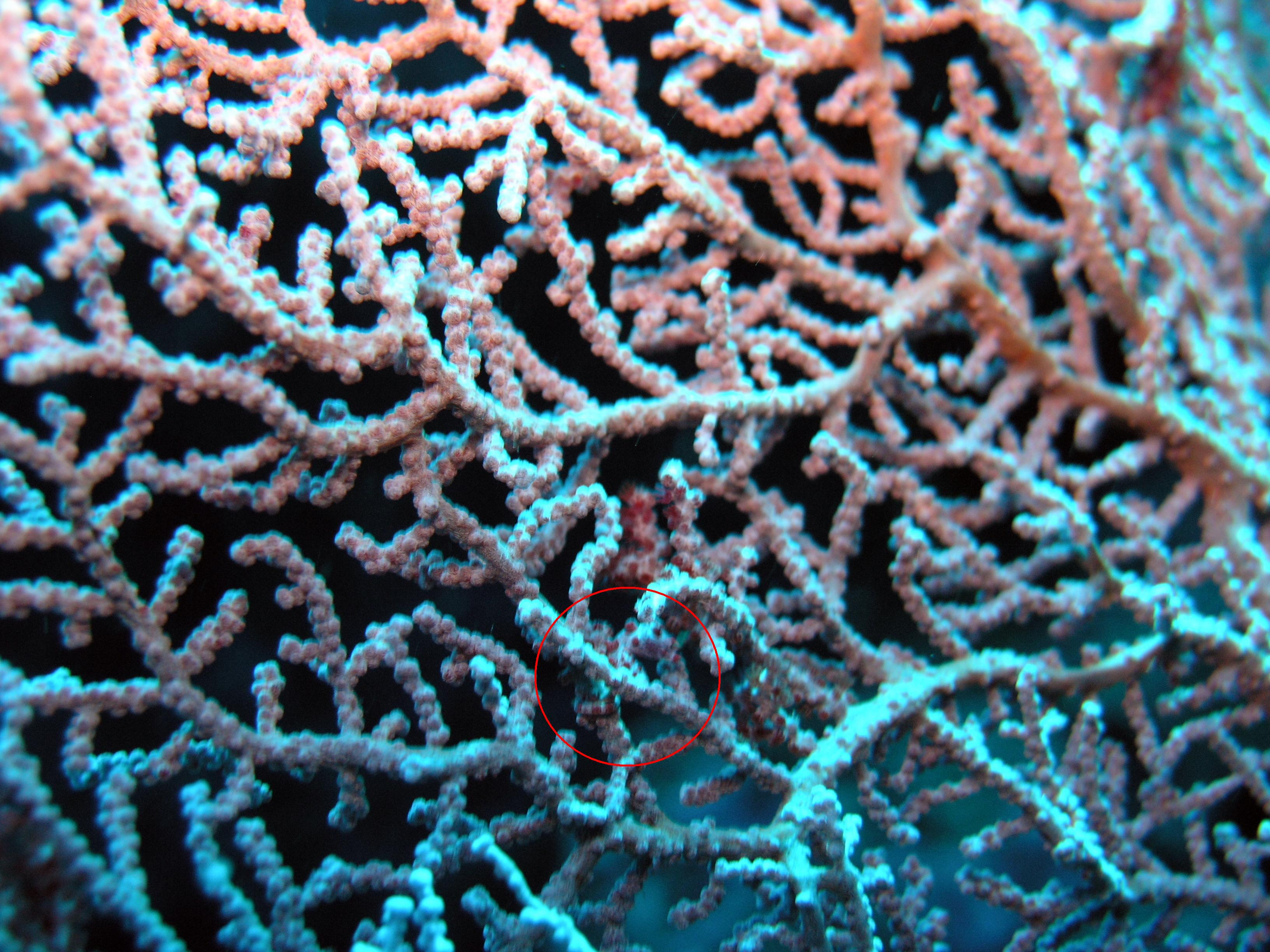 Image of Gorgonian coral Muricella plectana with a well camoflaged Pygmy seahorse. Hippocampus bargibanti. Taken at Lembeh Straits, North Sulawesi, Indonesia.